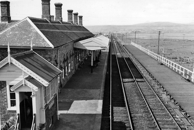 Borth Station. View north, towards Machynlleth; ex-Cambrian Rly. Machynlleth - Aberystwyth main line - station still open!